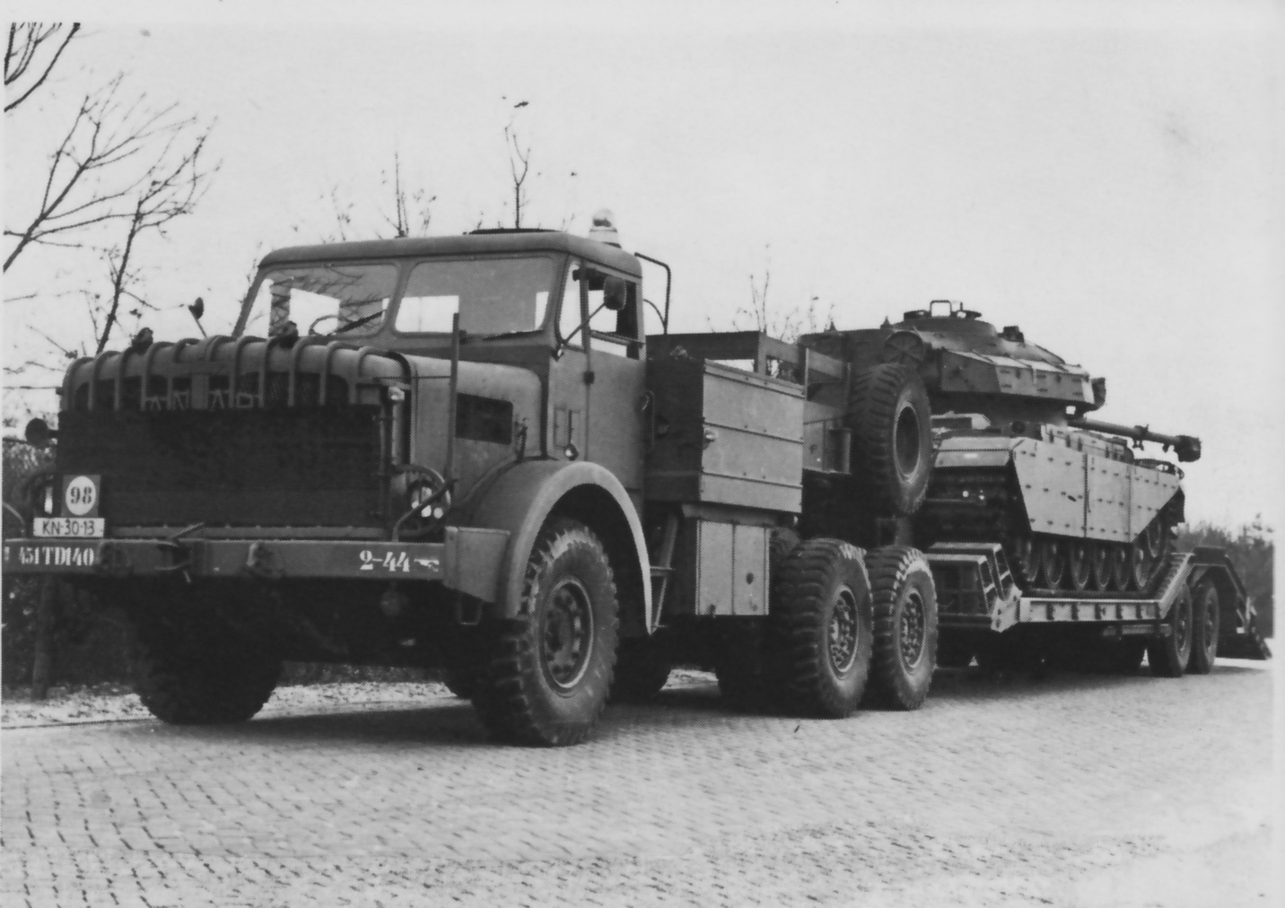 Tank transporter Mighty Antar made by Thornycroft (uk) in use by the Dutch Army .